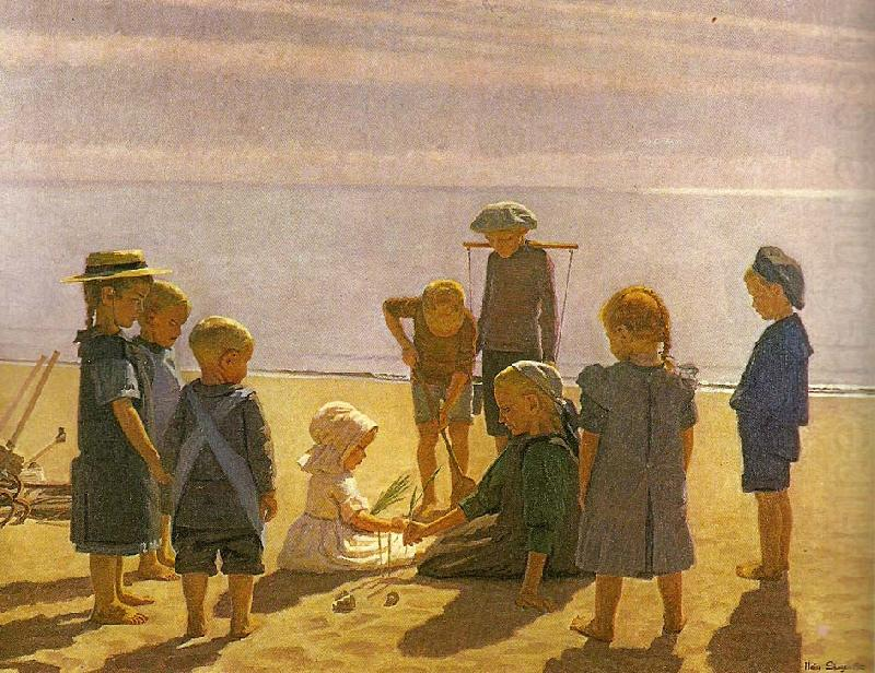 "Legende børn på Skagens trand" (Children playing on Skagen's beach), oil painting by Danish artist Einar Hein.